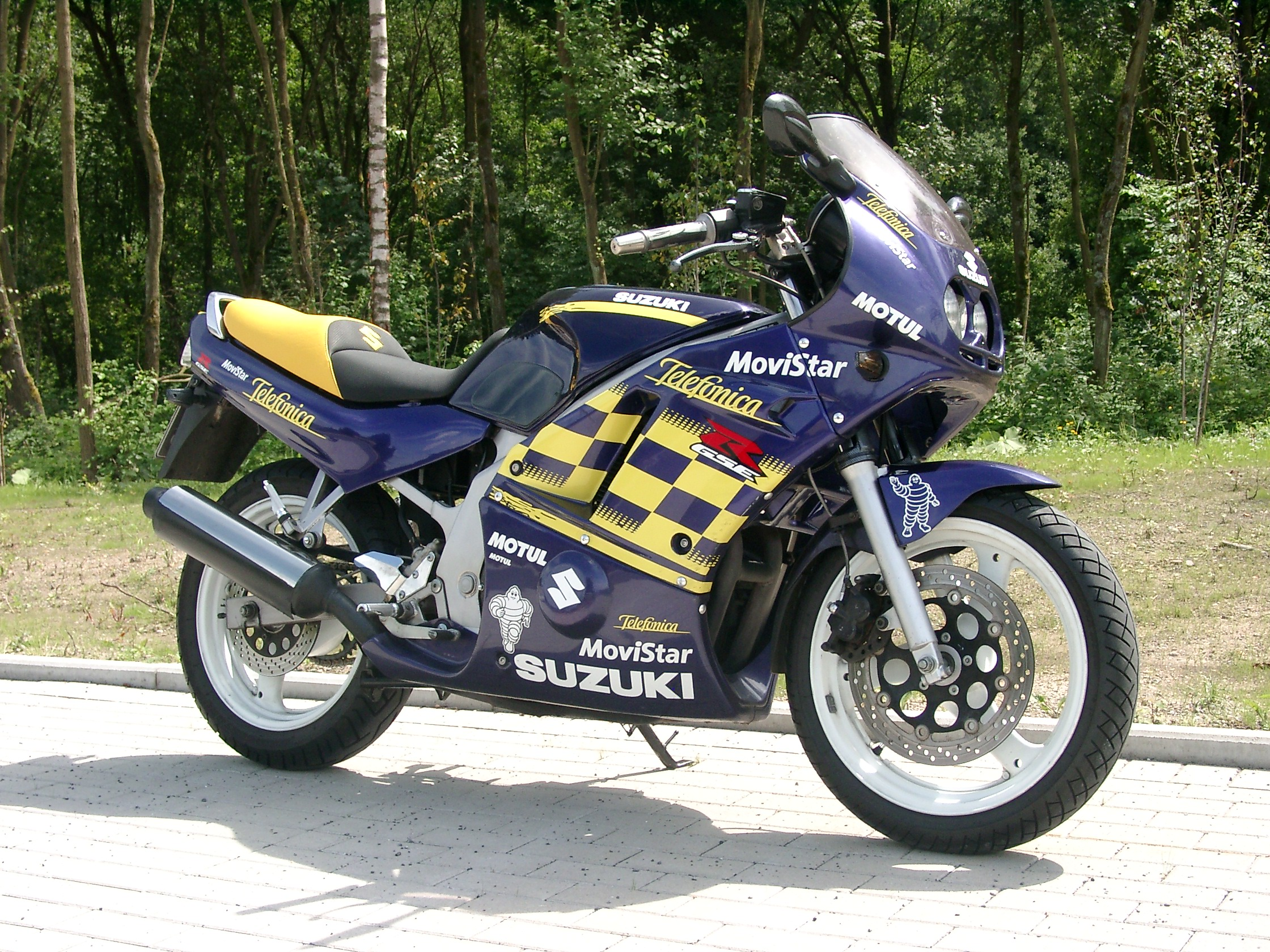 Suzuki GS500